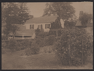 Photograph is thought to depict the Red Rose Inn where Violet Oakley and several of her fellow artists lived in the early 20th century. There is some confusion as to whether it actually depicts Cogslea, her later studio and residence, but this house does not quite ma